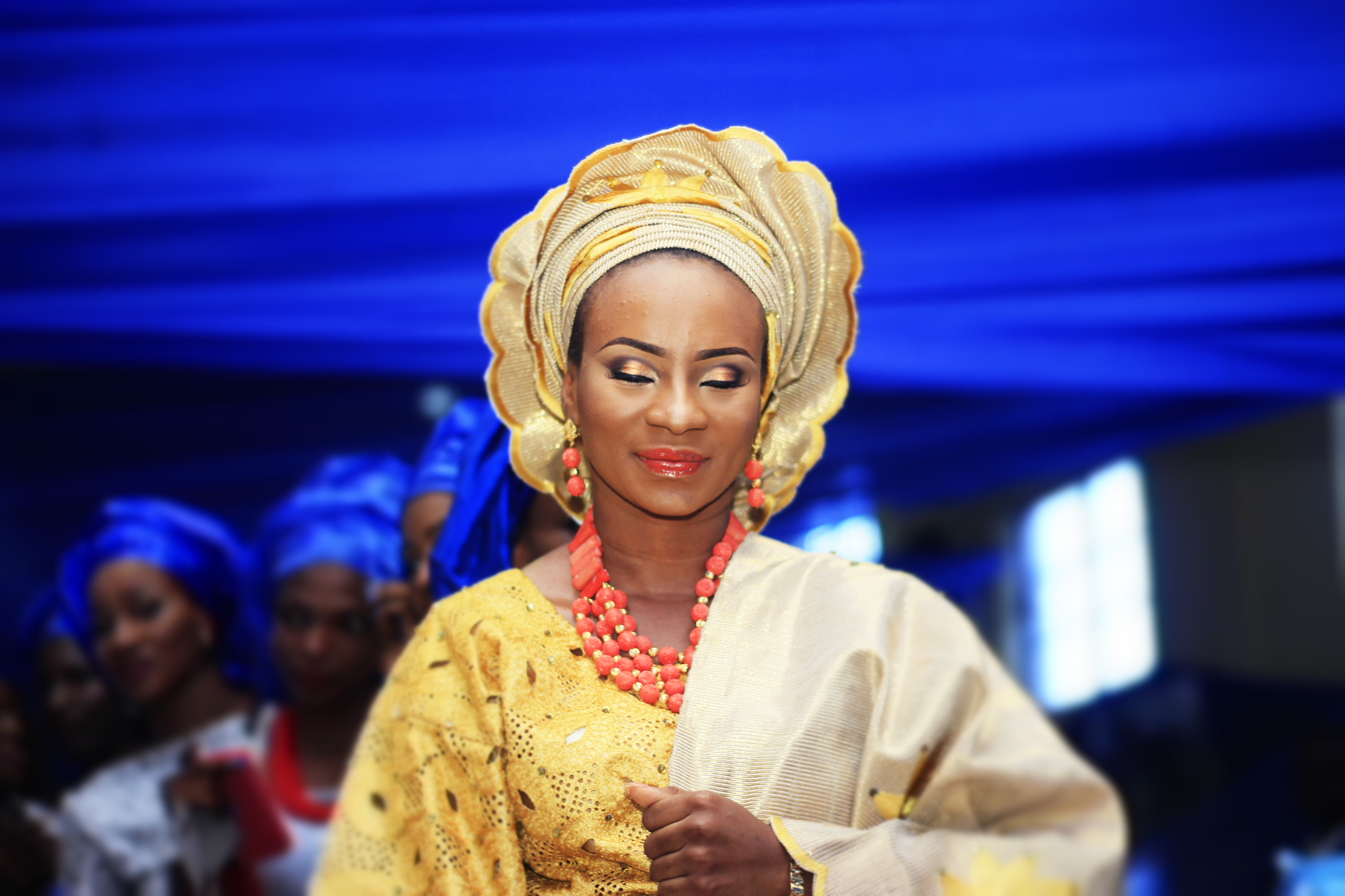 A yoruba traditional bride attire. Nigerian traditional bride This is an image of Cultural Fashion or Adornment from Nigeria